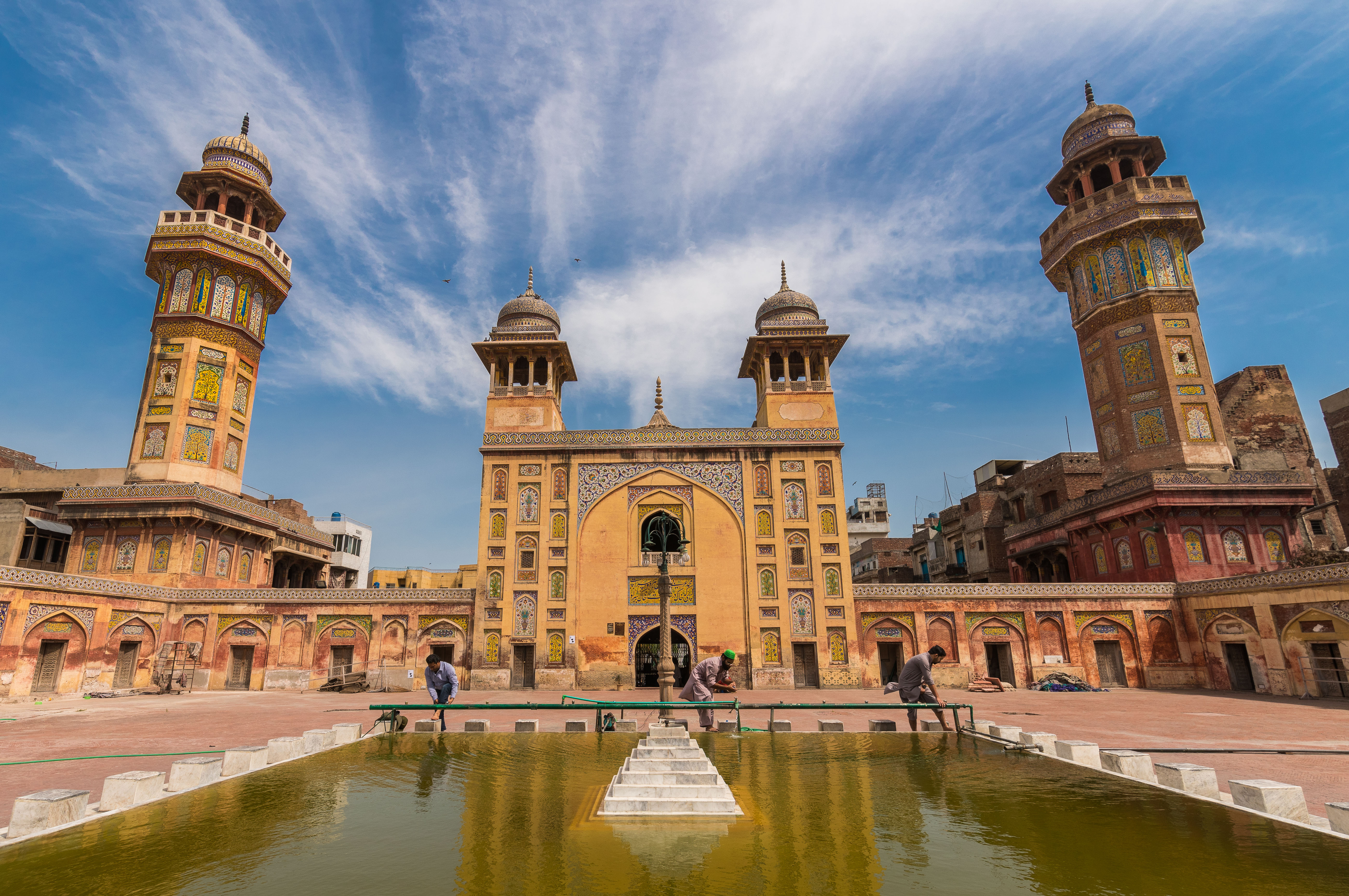 Wazir Khan Mosque This is a photo of a monument in Pakistan identified as the PB-100